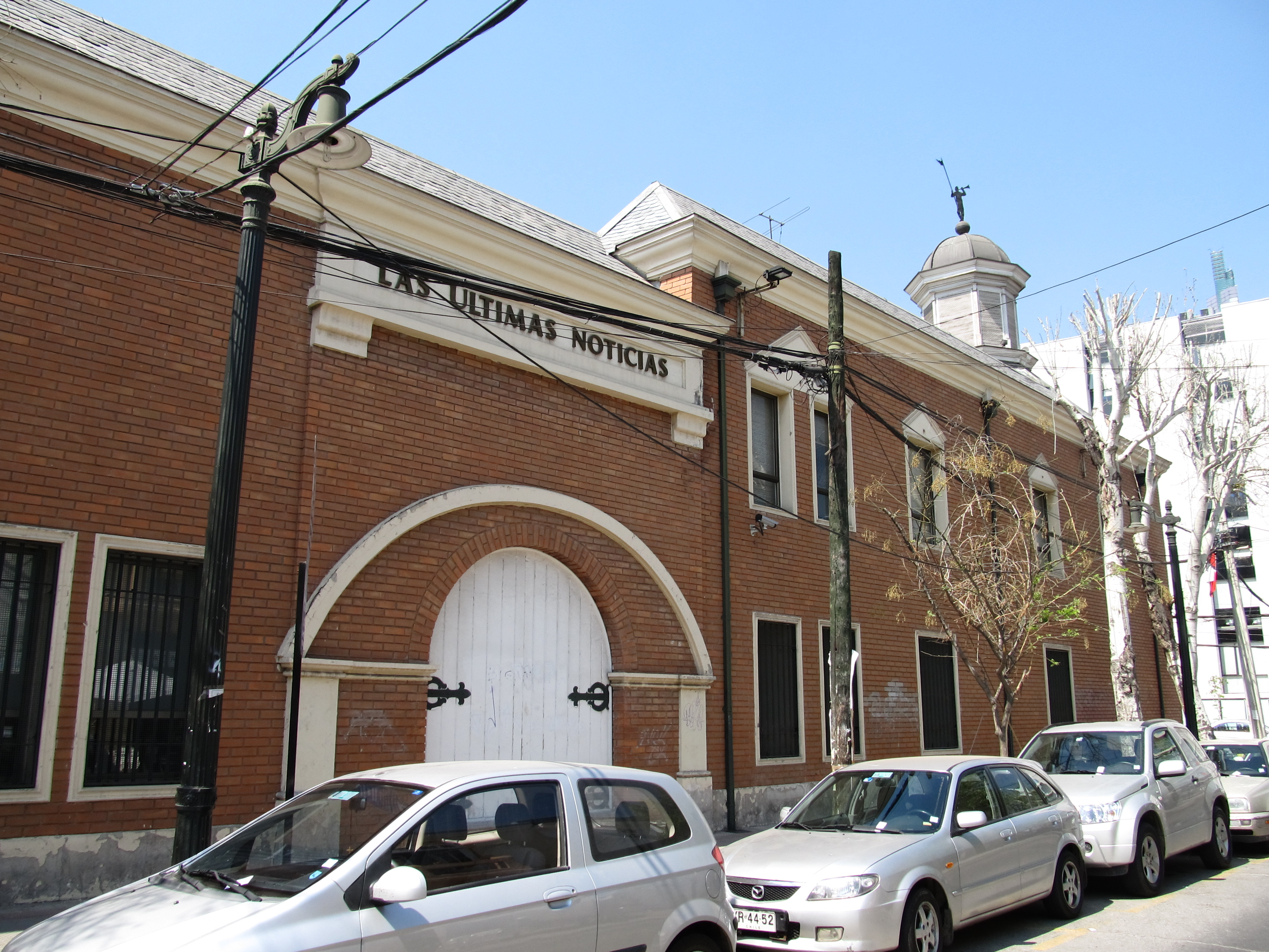 Edificio del periódico chileno Las Últimas Noticias.